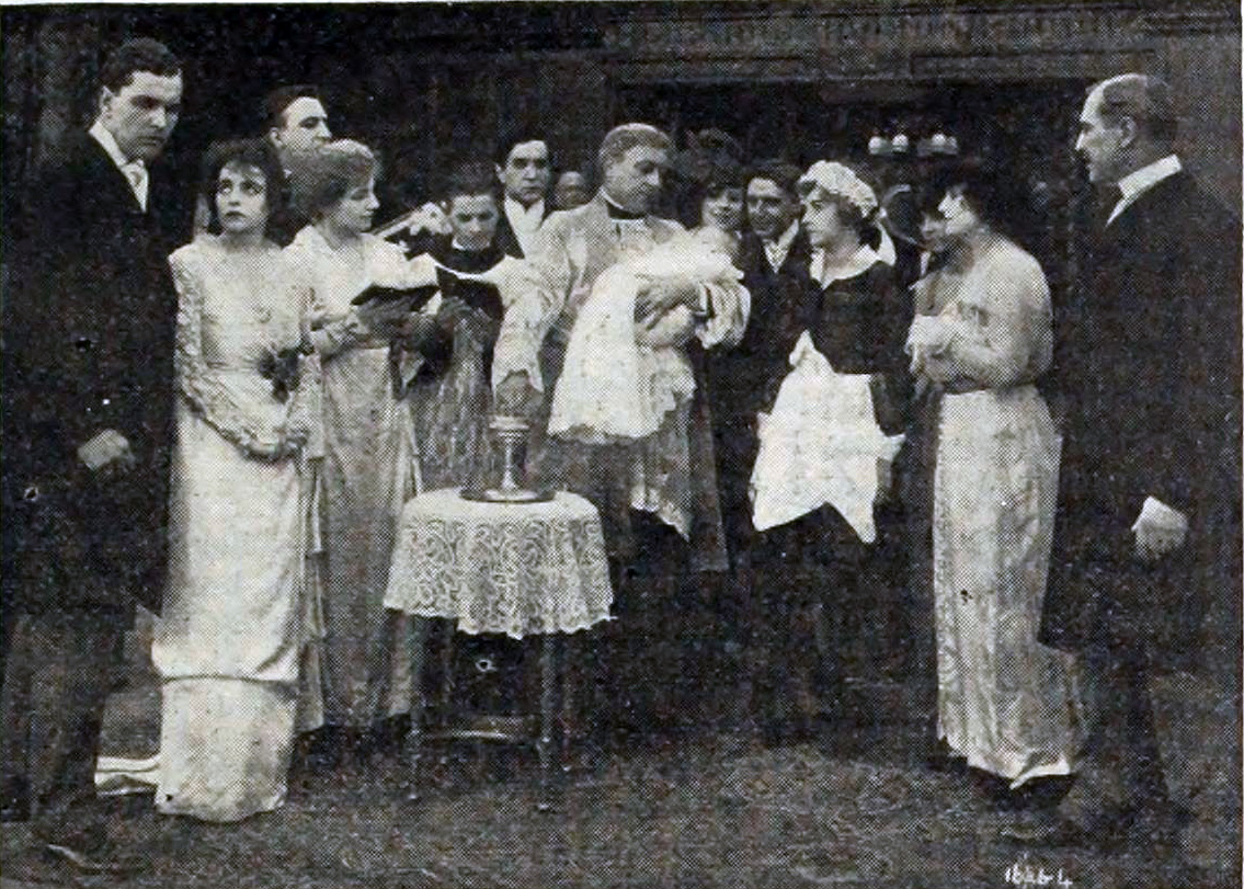 Illustration of a review in The Moving Picture World for the American film The Way of the World (1916).